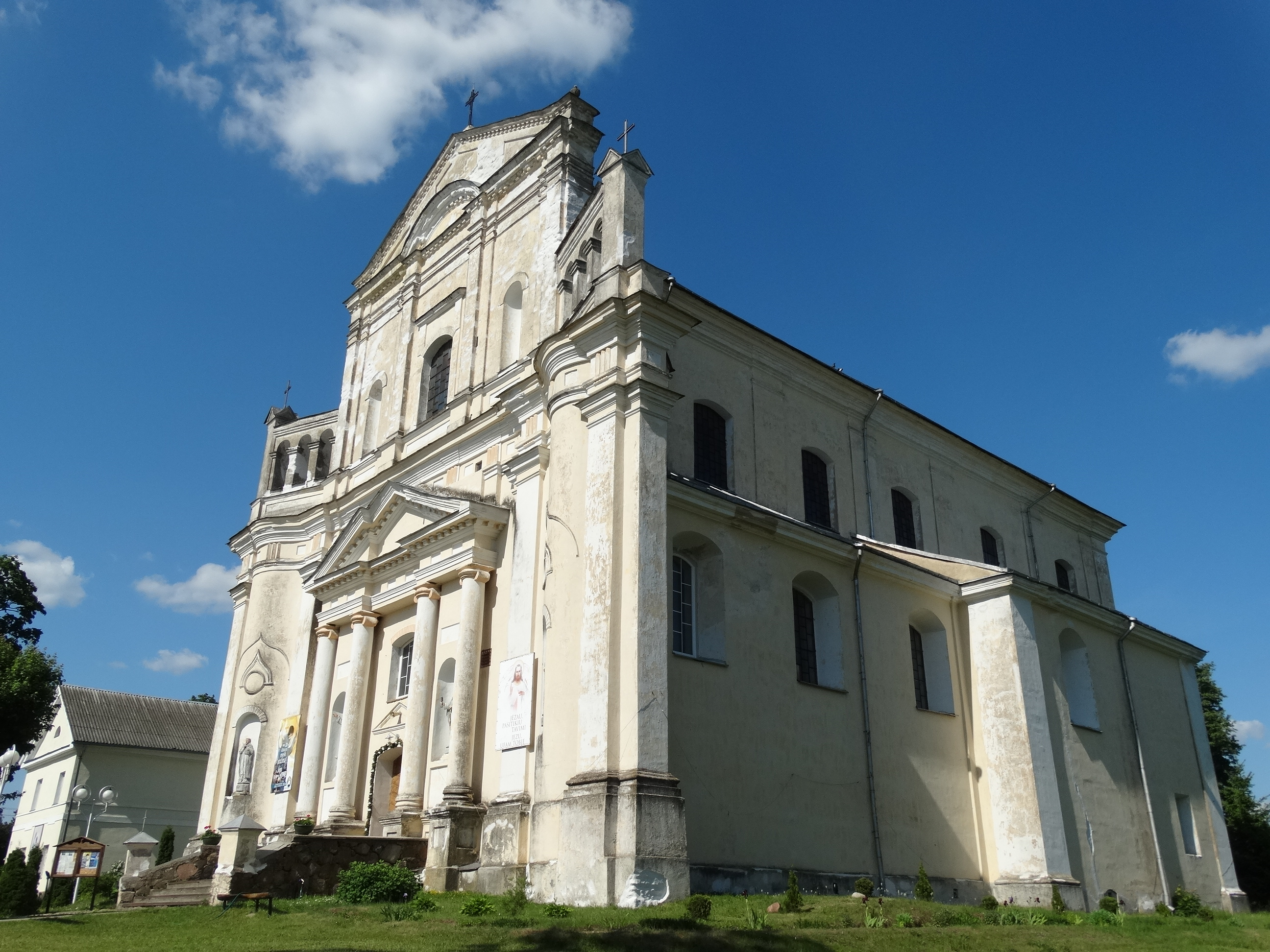 St. Michael Archangel church in Šumskas, Vilnius District, Lithuania